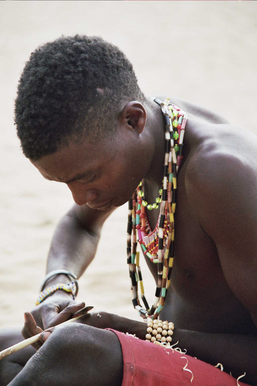 Hadzabe man preparing arrow